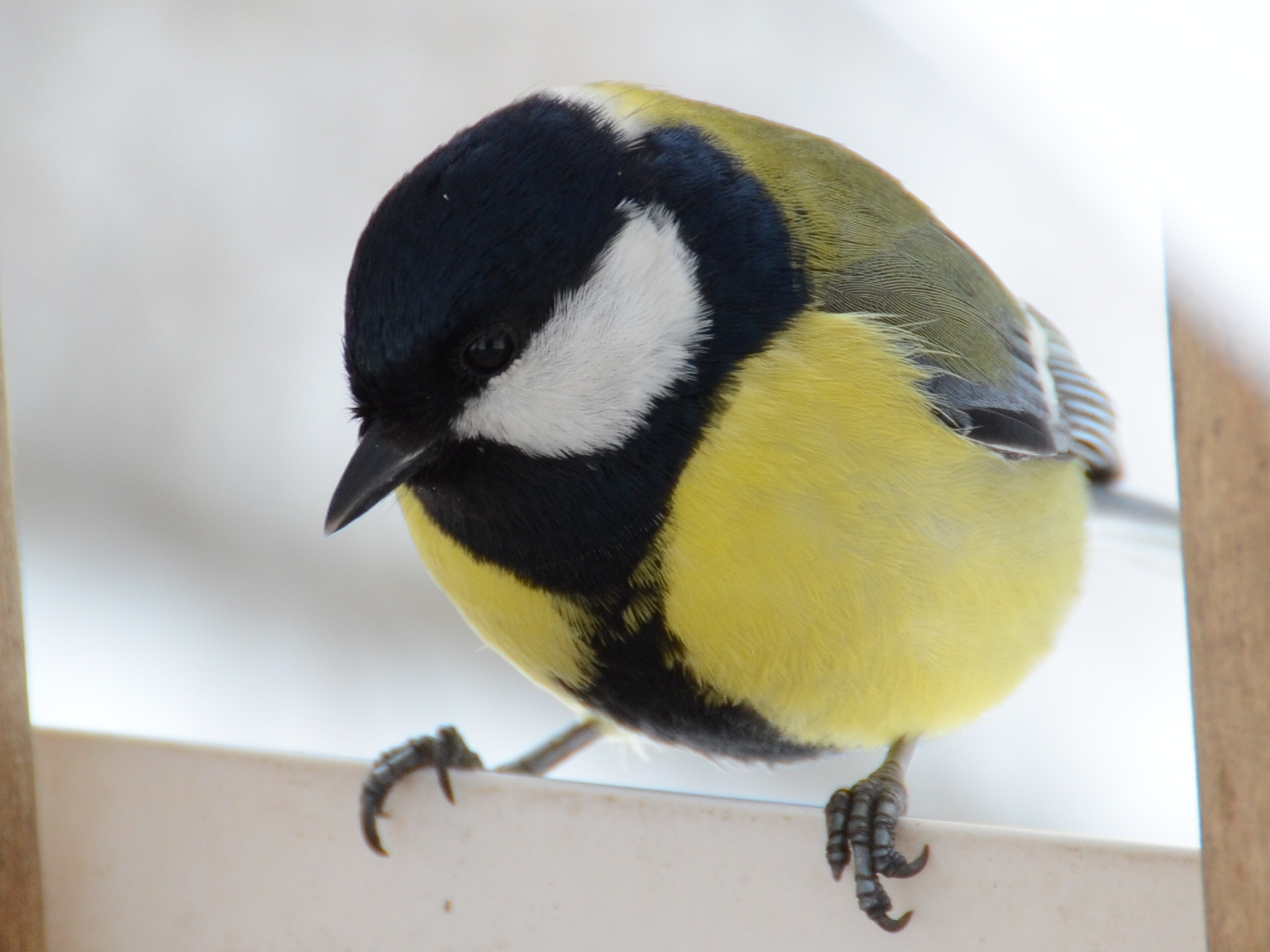 Great tit (Parus major) in a suburban forest